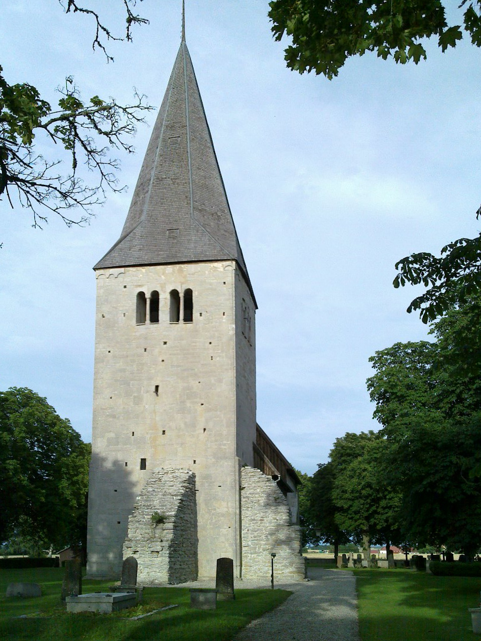 Tower of the church of Follingbo, Gotland, Sweden, viewed from the west